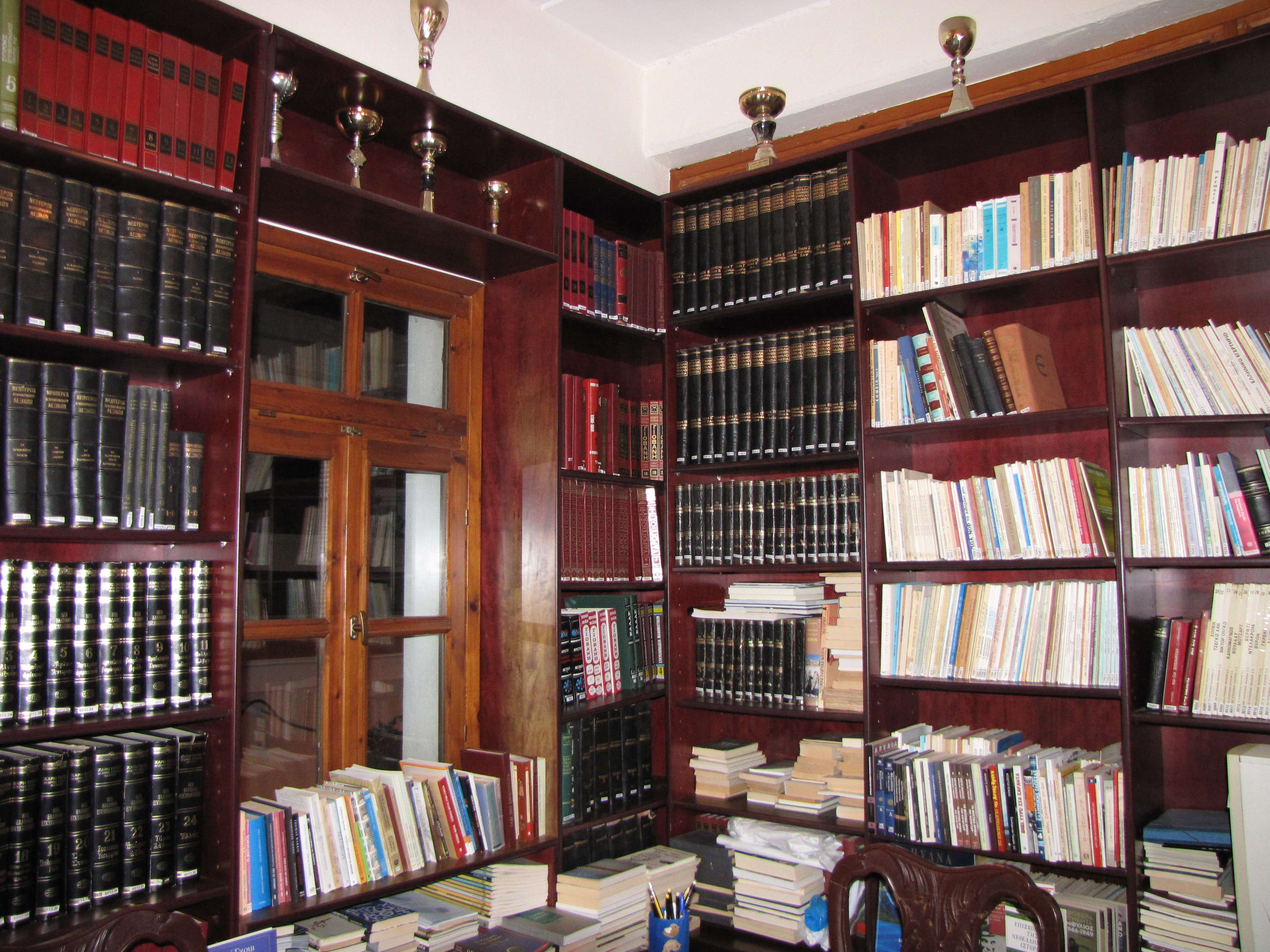 Library of the club Mikrasiaton Pierias